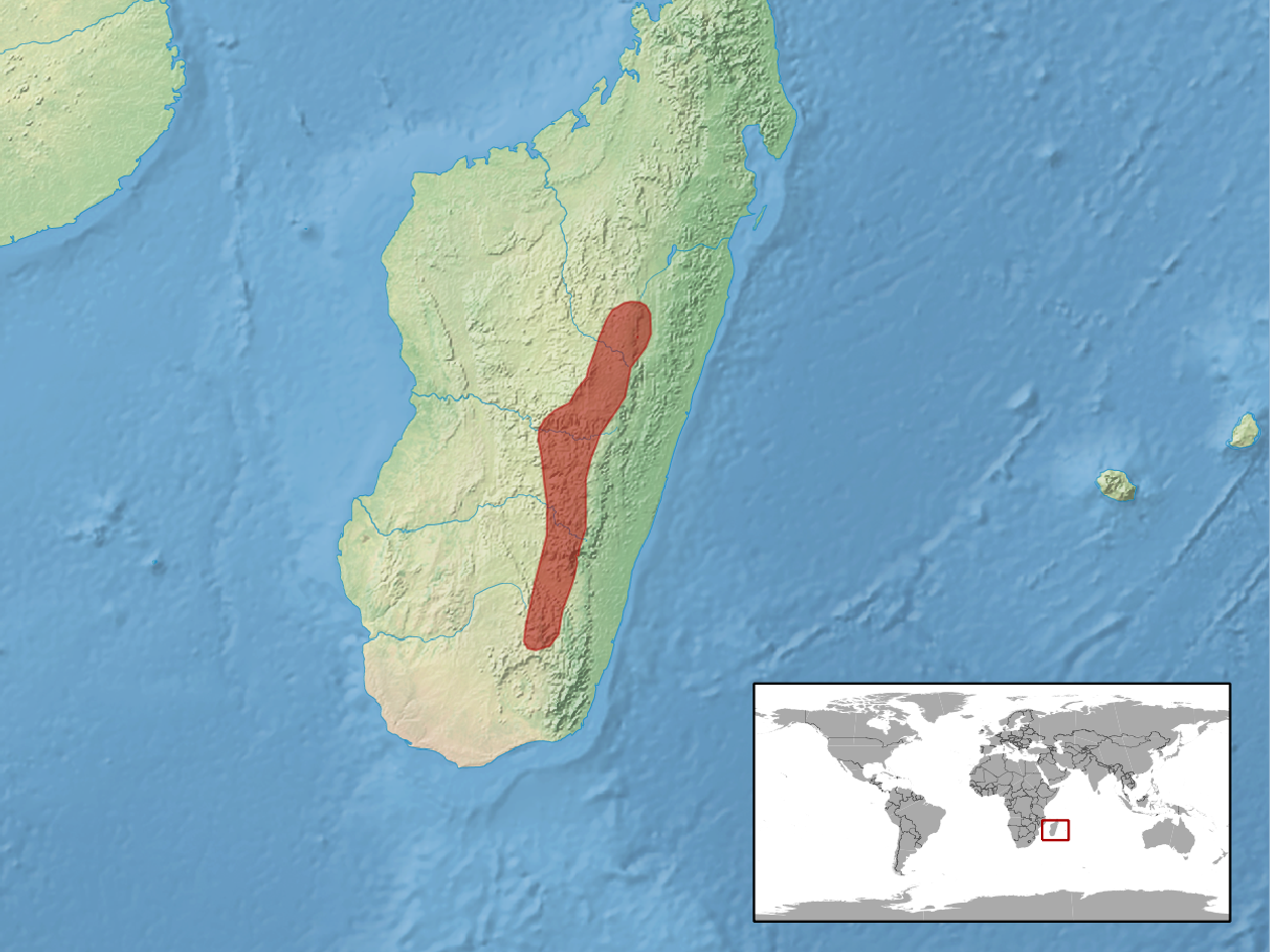 geographic distribution of Trachylepis boettgeri